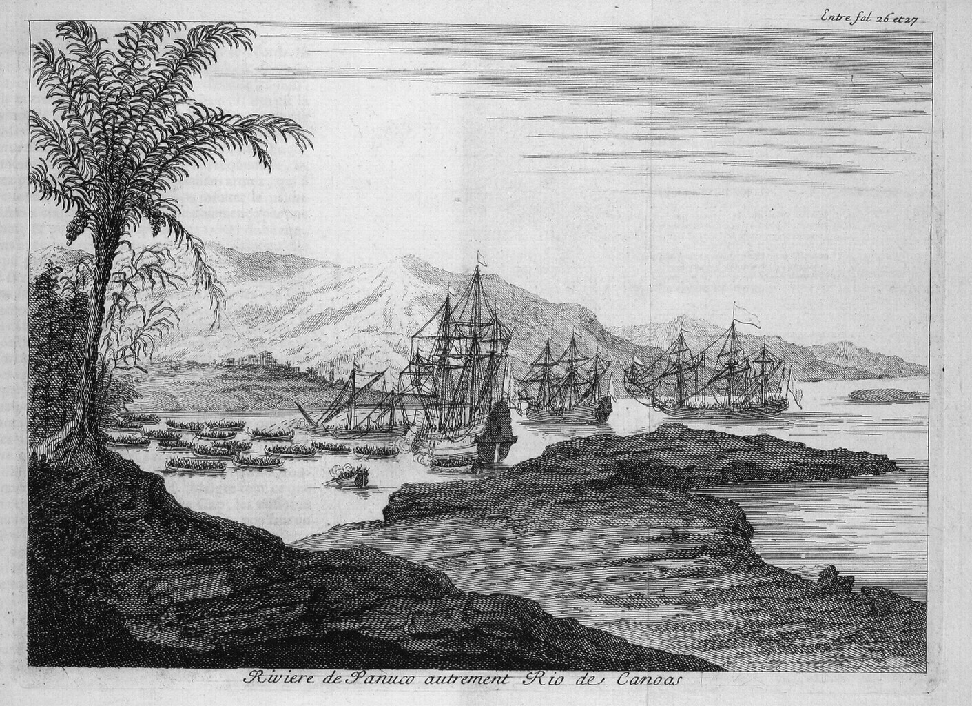 Panuco River aka Rio de Canoas - Copper-plate engraving from Van Beecq